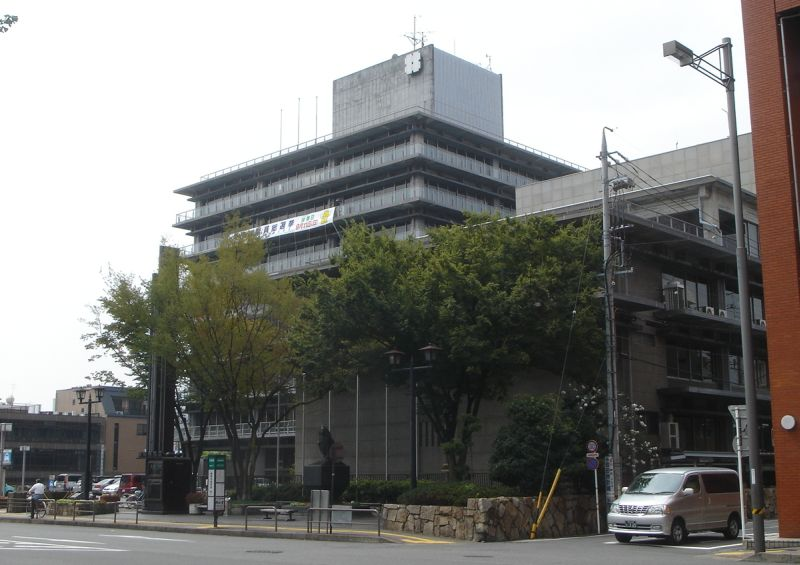 Gifu City Hall in Gifu Preferture, Japan